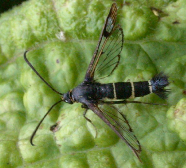 Synanthedon tipuliformis (Clerck) [ Lepidoptera : Sesiidae ]. Cambridge, UK. Photographed & uploaded by Keith Edkins.